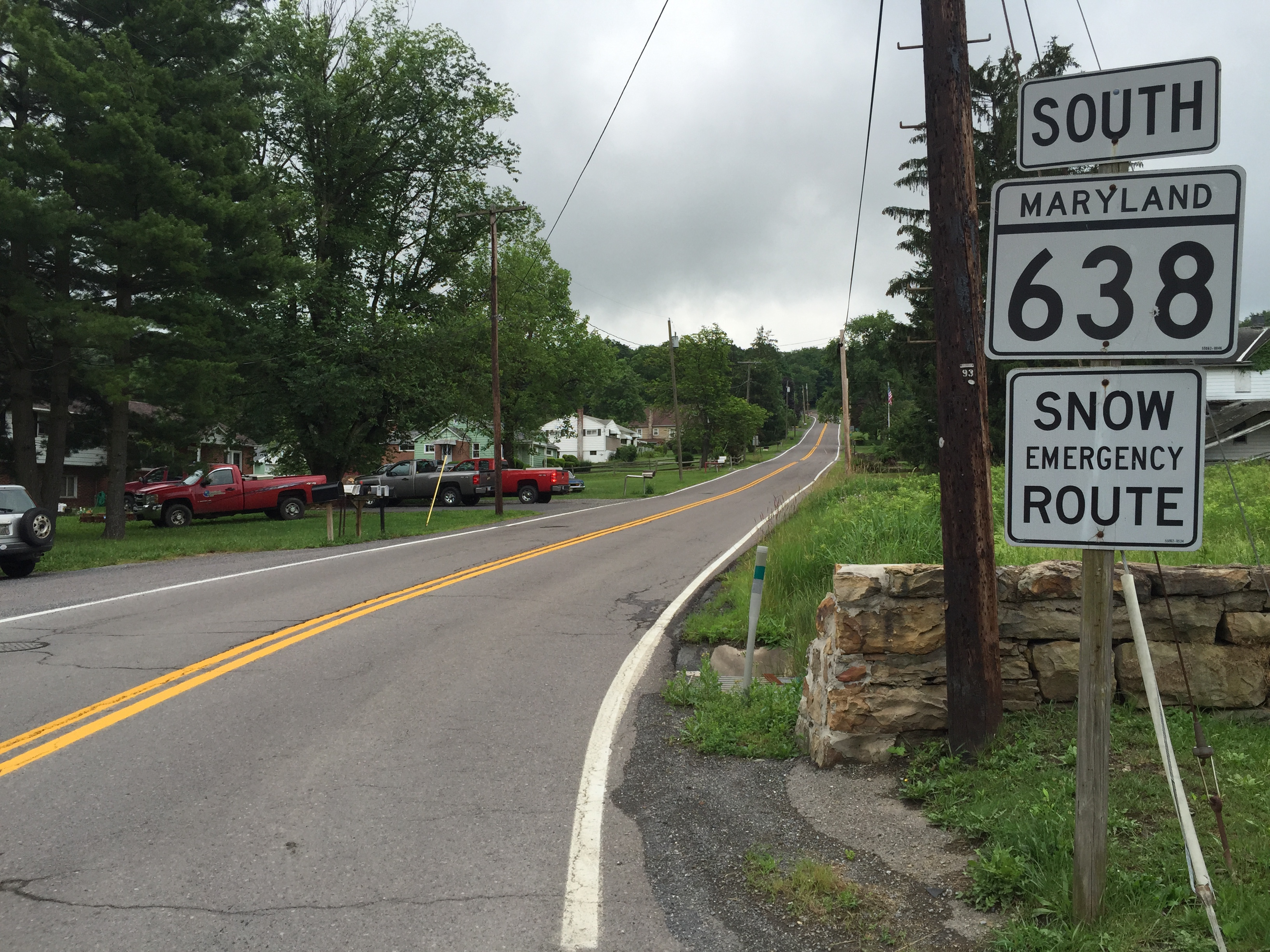 View south along Maryland State Route 638 (Parkersburg Road) at Maryland State Route 36 (Mount Savage Road) in Morantown, Allegany County, Maryland